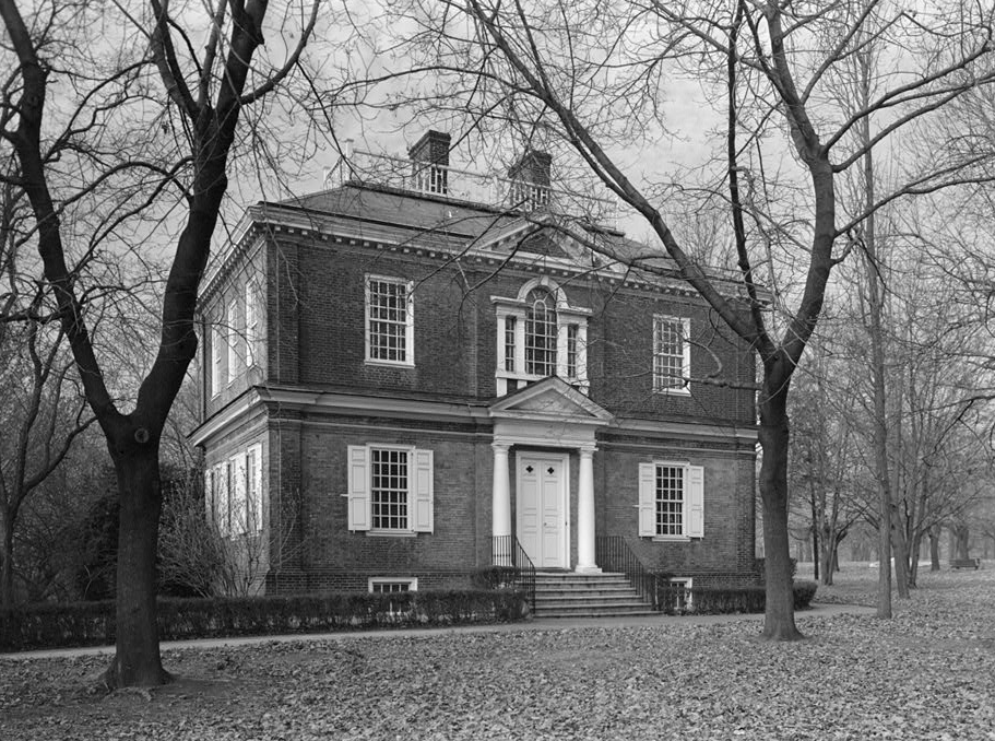 Woodford, Philadelphia, PA, a National Historic Landmark located in Fairmount Park at 2450 Strawberry Mansion Bridge Drive, Philadelphia, PA 19132